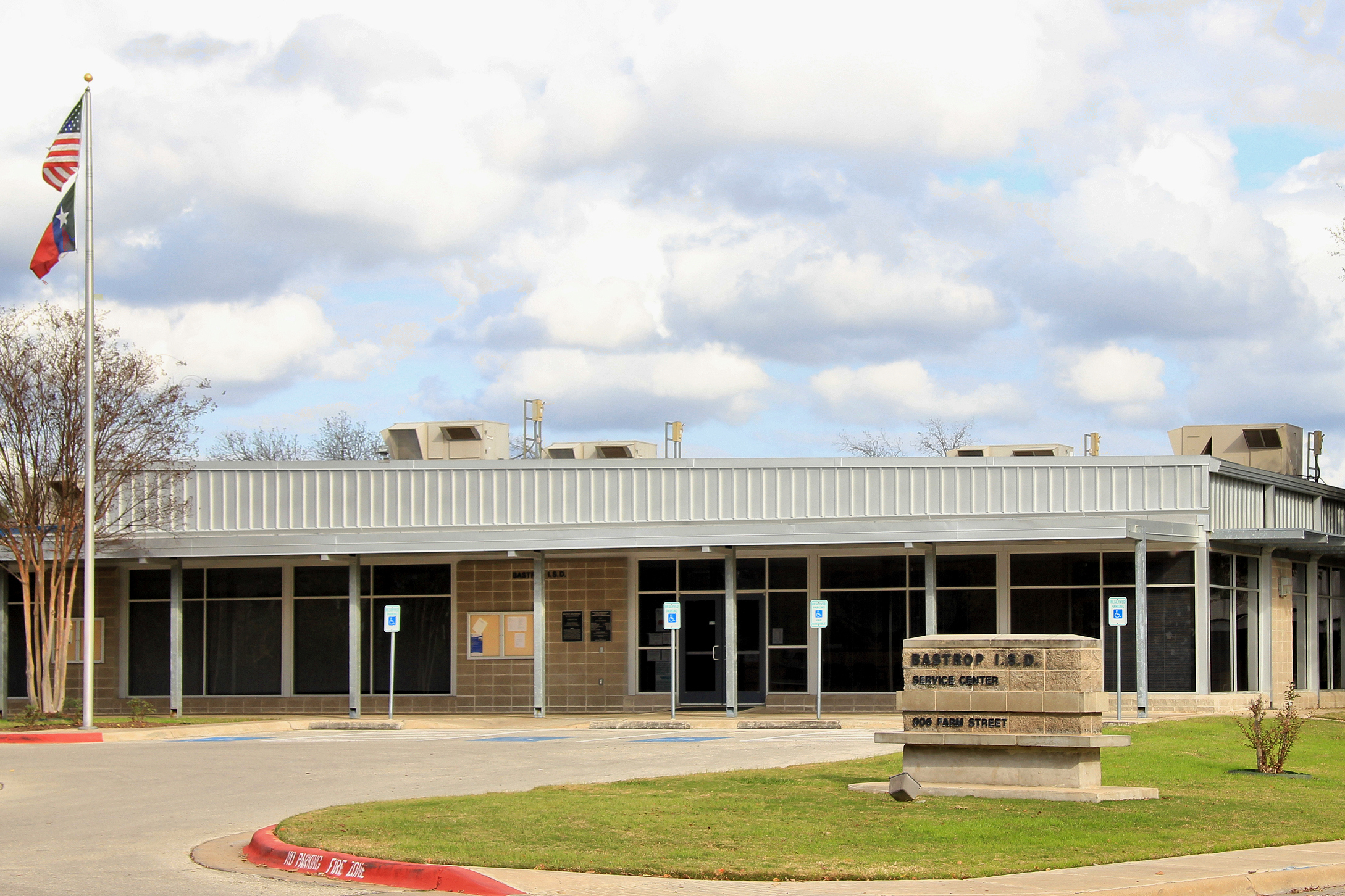 Bastrop Independent School District administrative offices, Bastrop, Texas, United States.